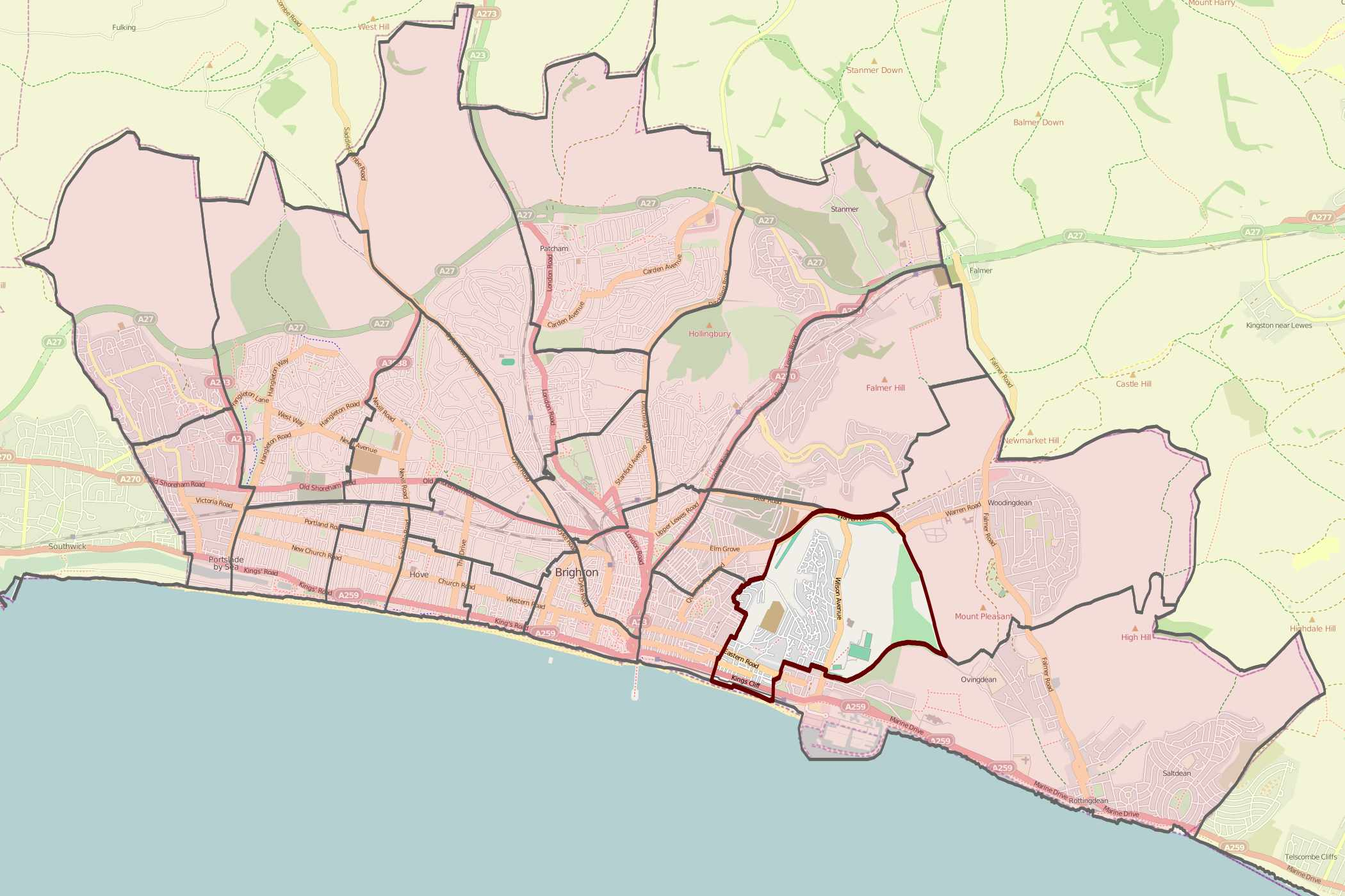 Map of Brighton and Hove wards with one ward highlighted